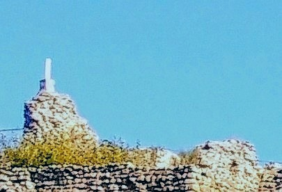 Ruins of Norman Castle's keep in Ariano Irpino, Italy